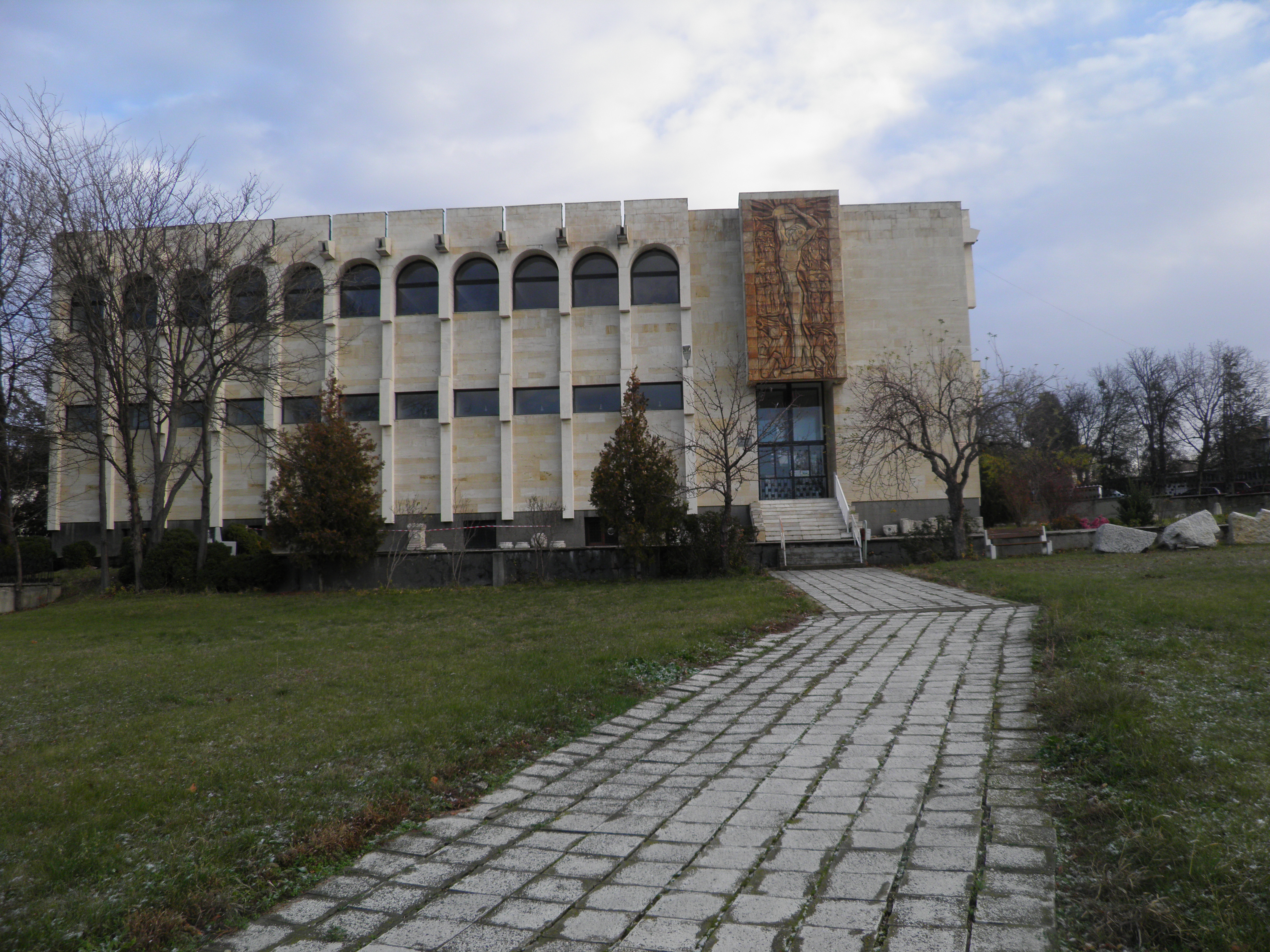 Museum in Pavlikeni,Bulgaria